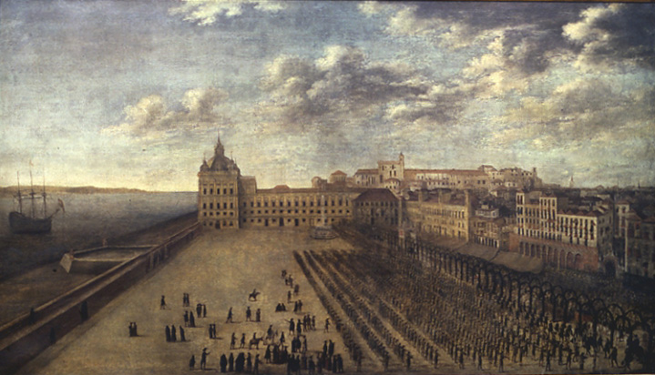 Royal Cortege on the Palace Square, 23 April 1662. Infanta Catherine of Braganza departs for England, where she is to marry King Charles II.